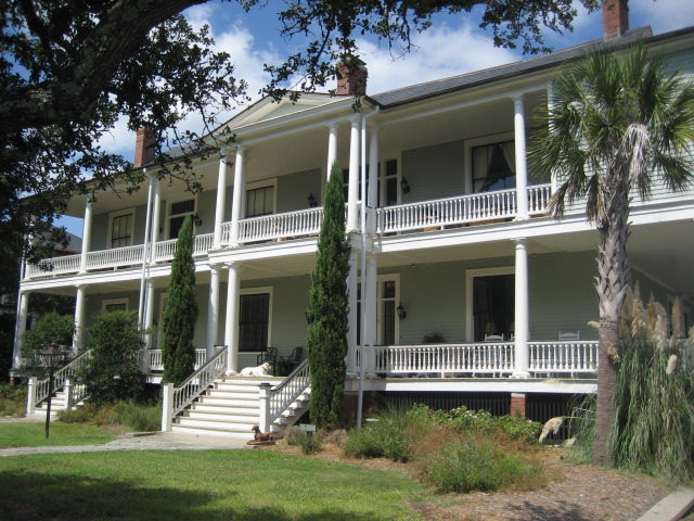 Circa 1900 condo building on Sullivan's Island.